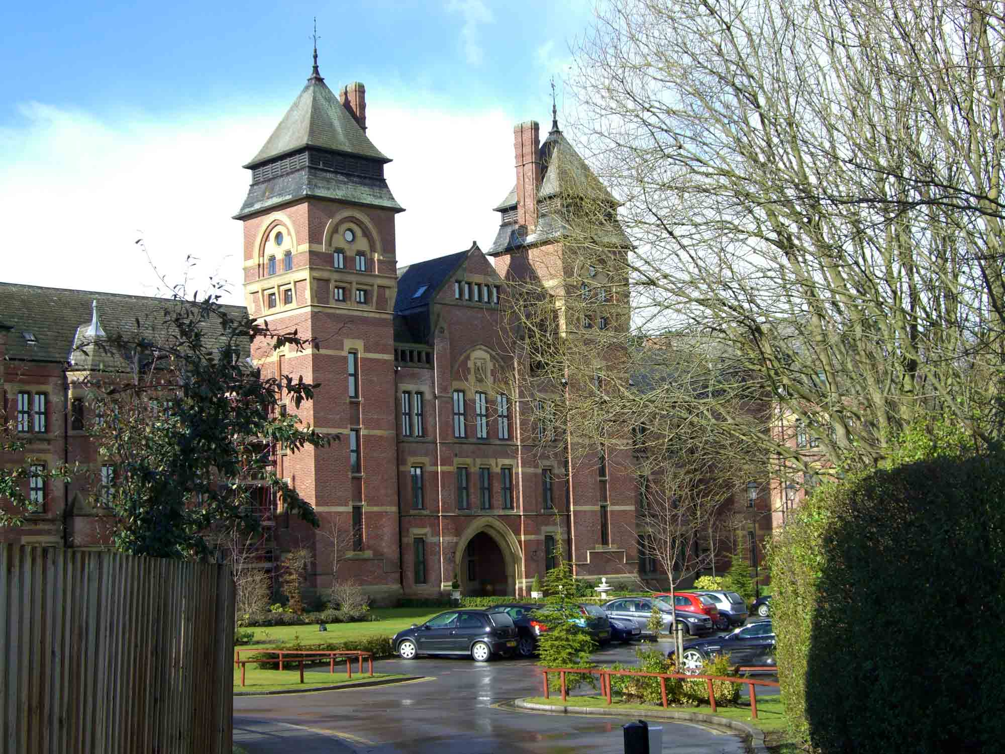 Redeveloped Kingswood Ward at old Middlewood Hospital is now flats.